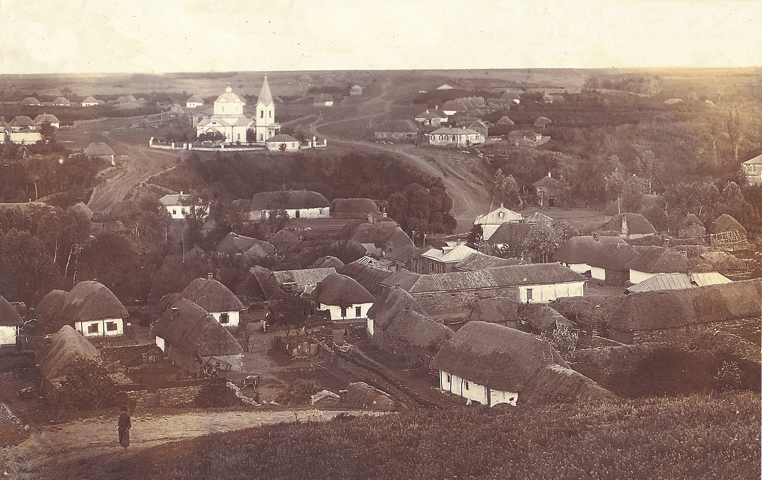 Makariv Yar village in 1903